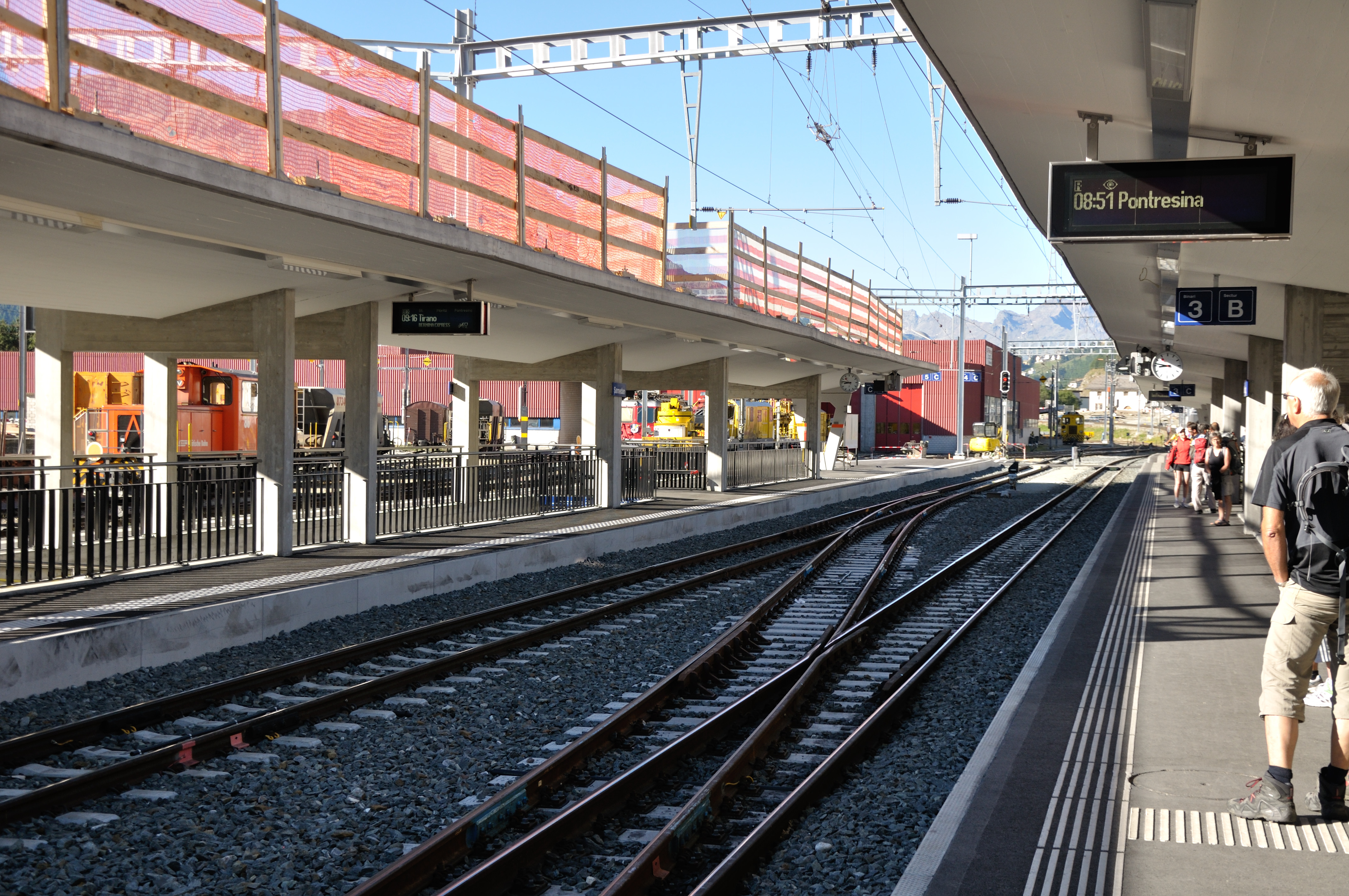 Switzerland, Graubünden, impressions on the Albula line of the Rhaetian Railways between Bergün and Samedan